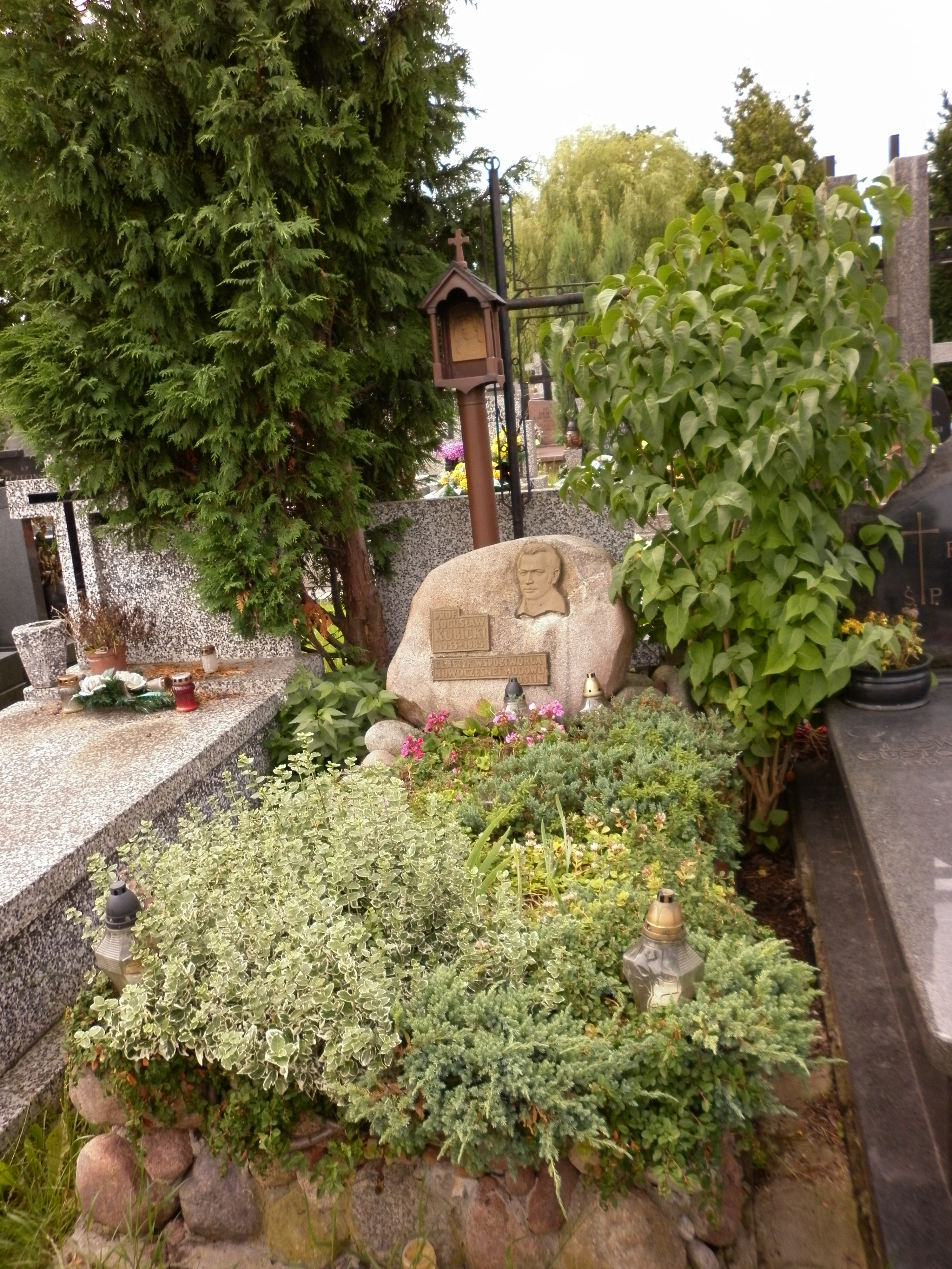 Bogłusław_Kubicki tomb on cmentary in Renety street